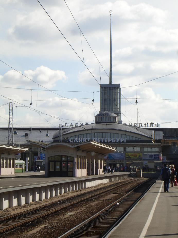 Finlyandsky Rail Terminal, view from the perrons.